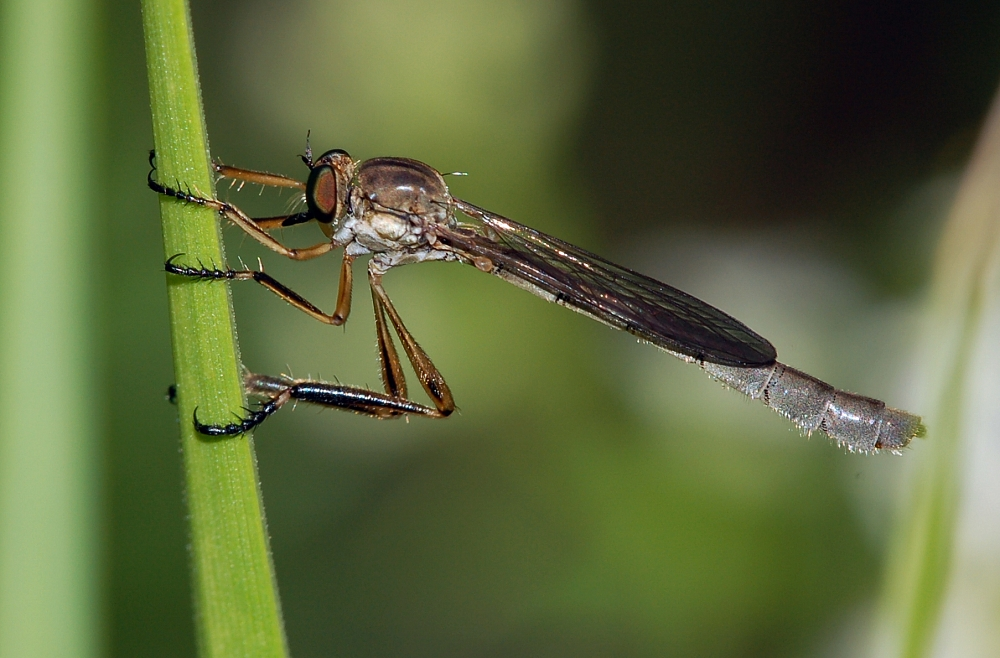 Leptogaster cylindrica, female, Salziger See, Röblingen near Halle/Saale, Germany